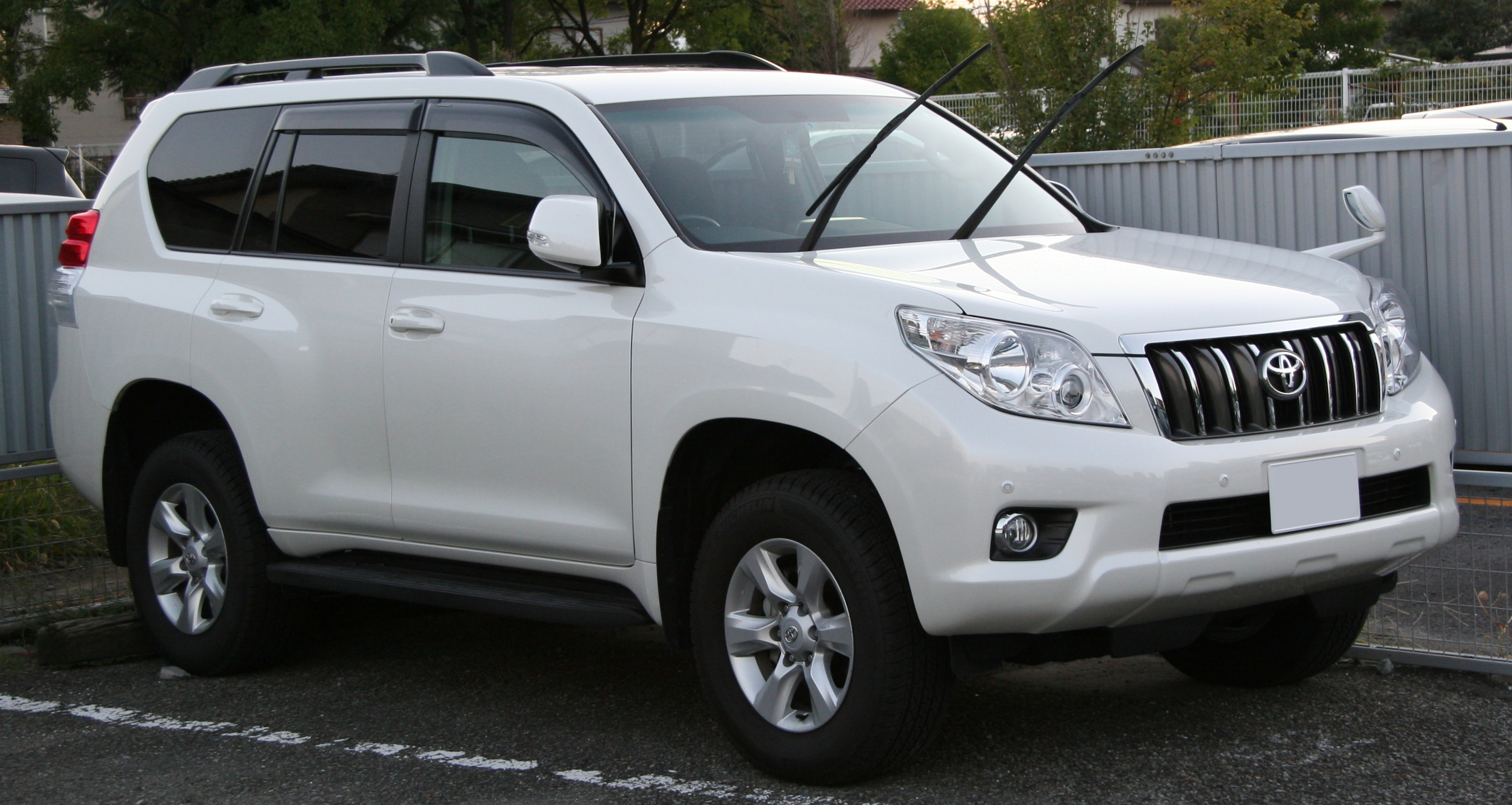 Toyota Land Cruiser Prado